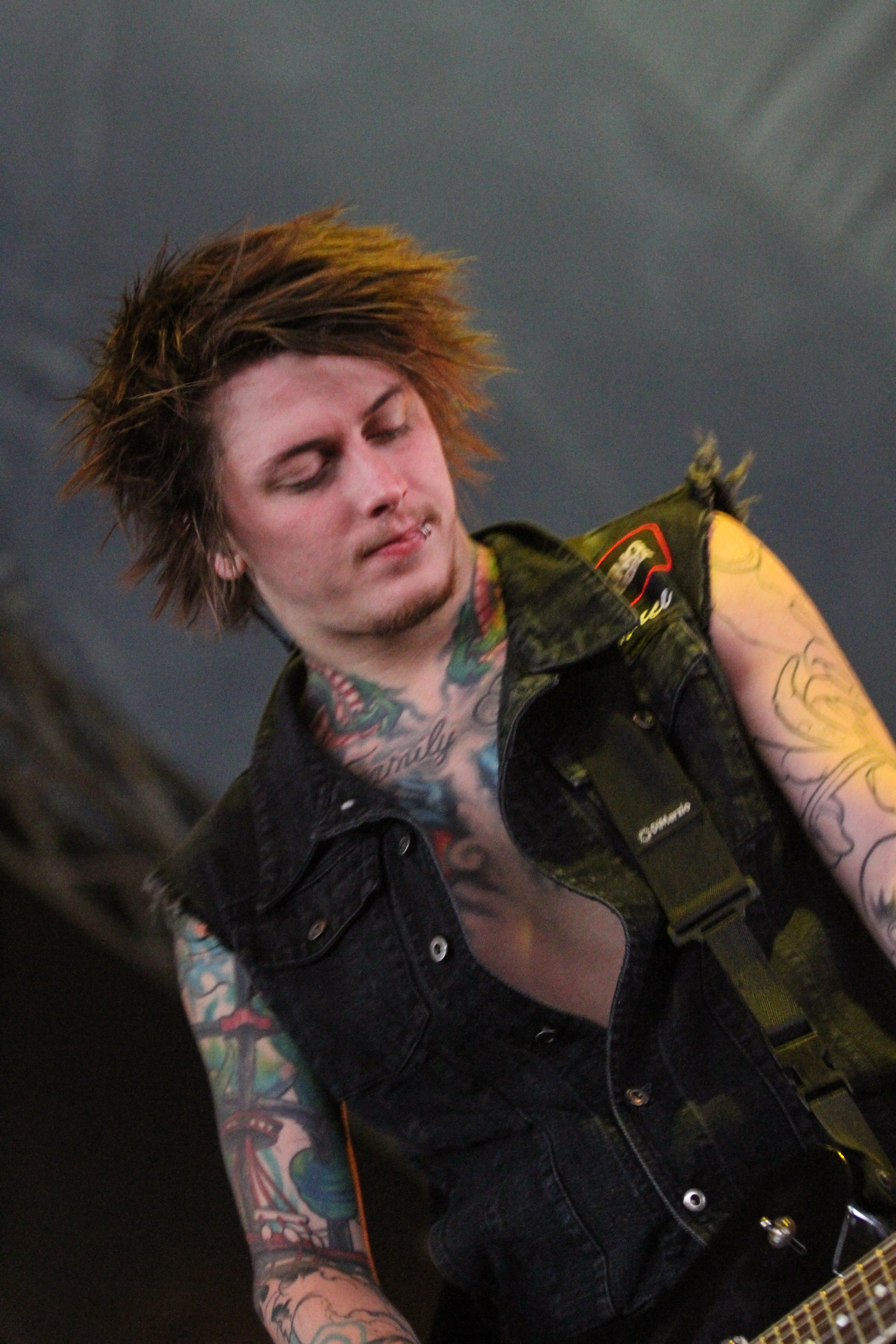 Festivalsommer This photo was created with the support of donations to Wikimedia Deutschland in the context of the CPB project "Festival Summer".